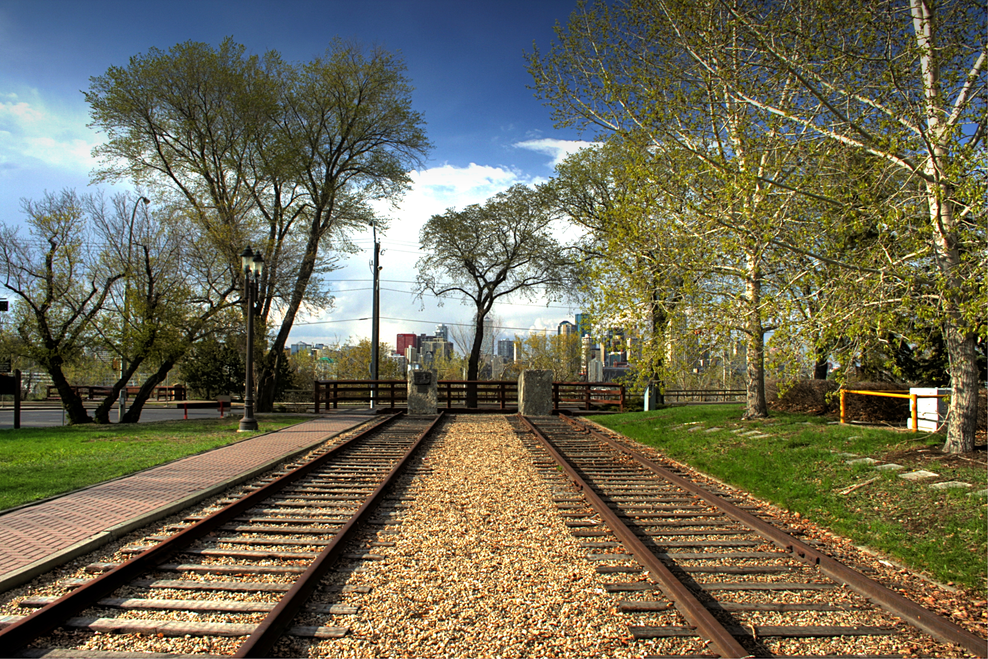 Termination of the rails in End of Steel Park in Edmonton, Alberta, Canada.